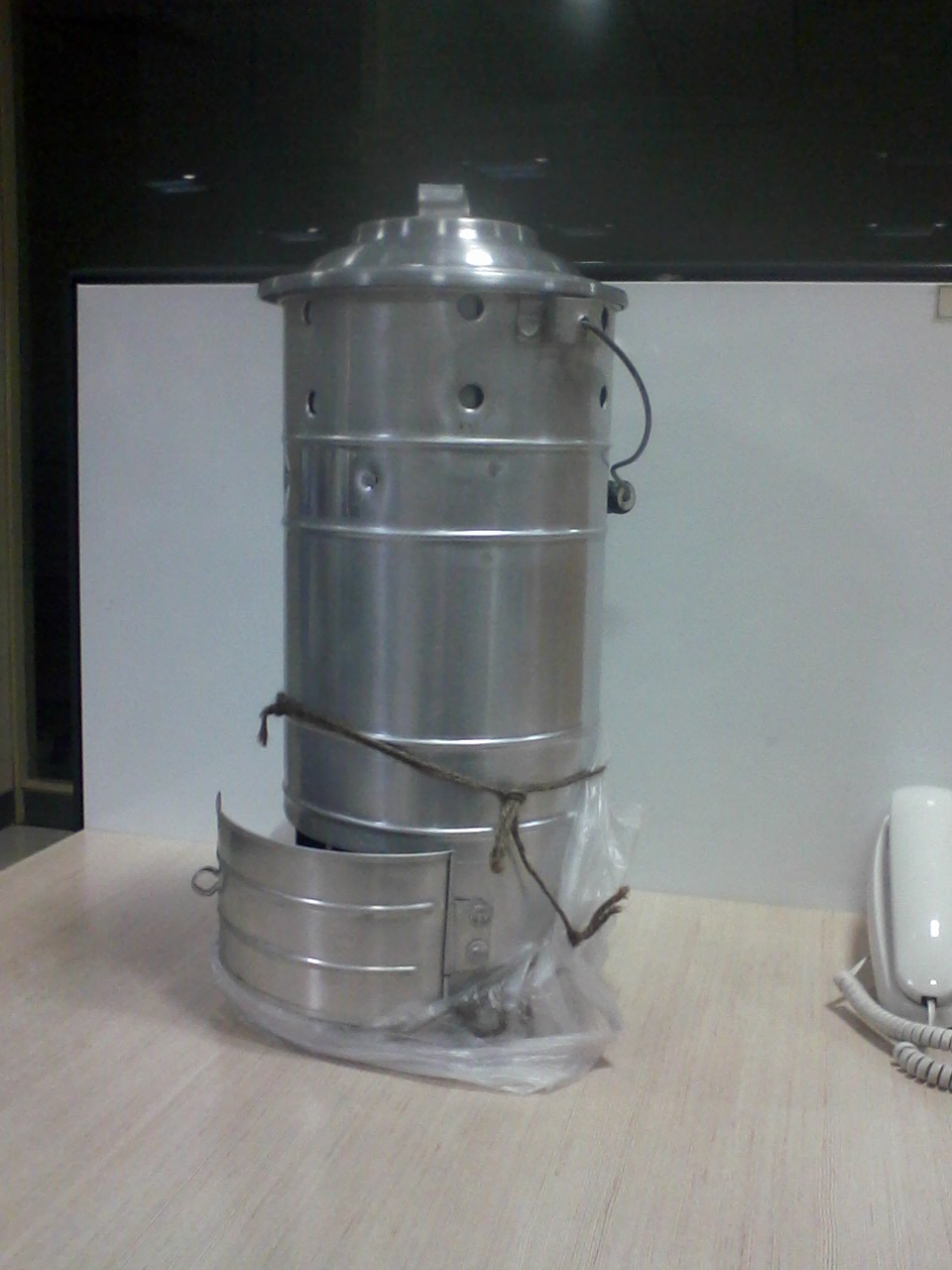 This is an image of ICMIC Cooker